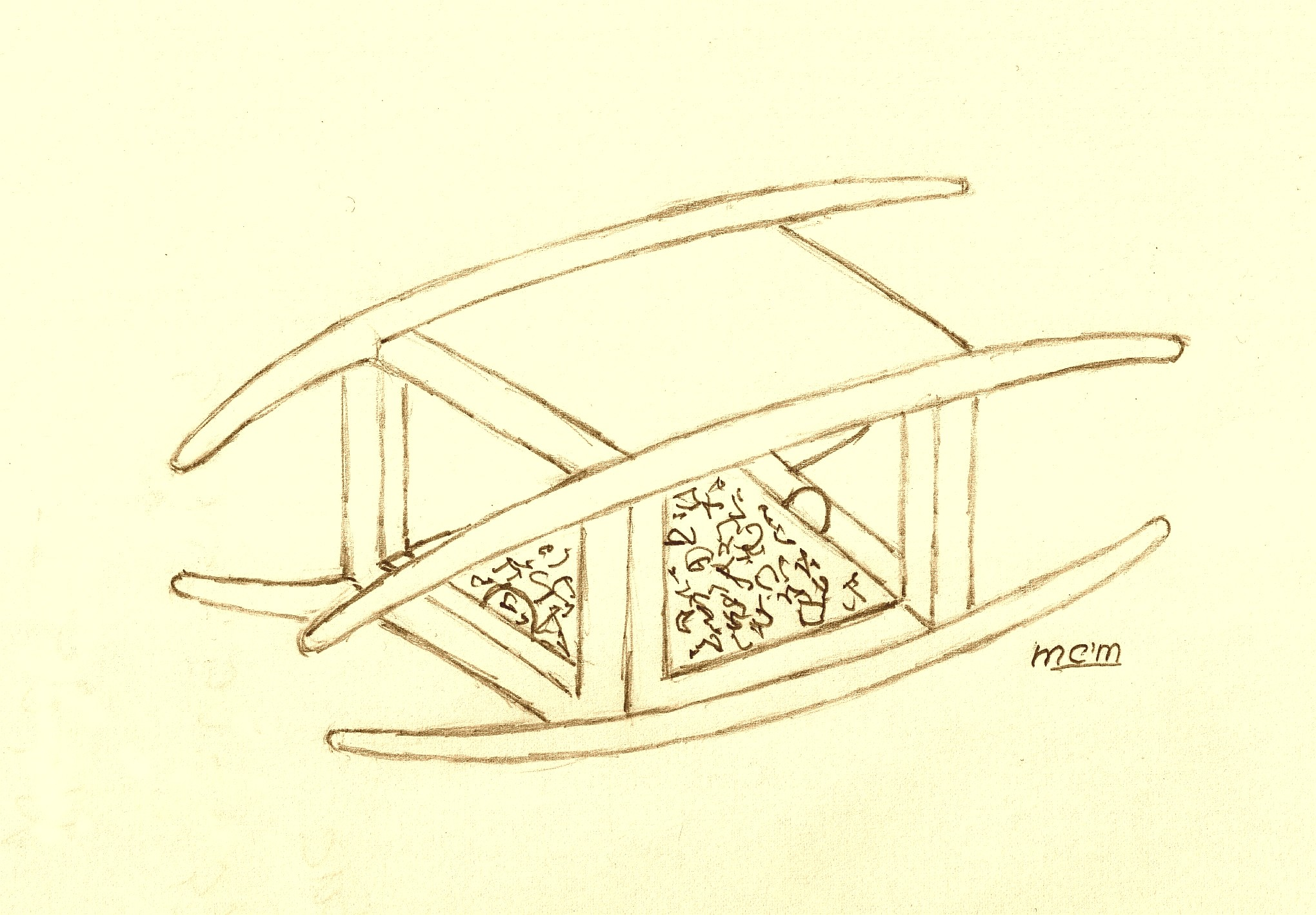 Catalan bed heater colloquially called "burro", used in the old days to hold embers inside the bed to warm it up.